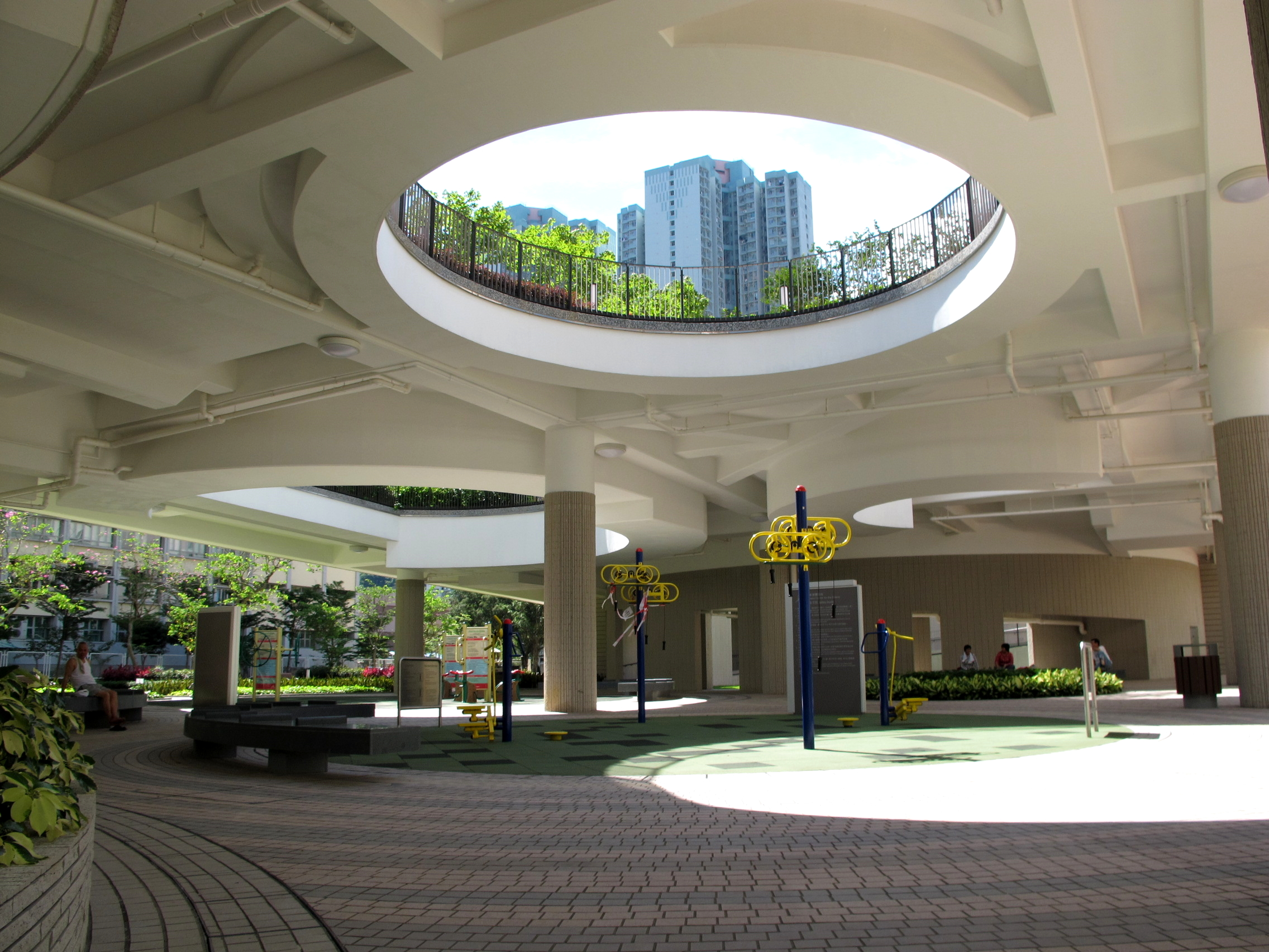 Tong Ming Street Park Lower Deck Facilities 唐明街公園